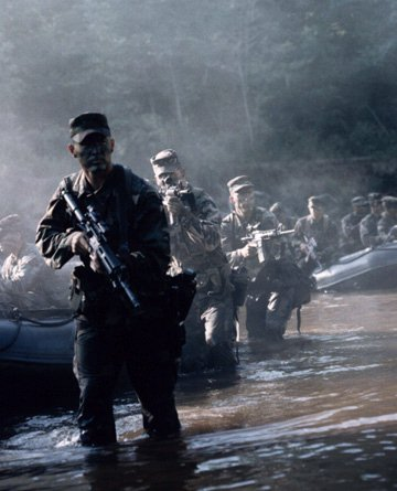 U.S. Army Rangers on patrol Contents 1 Copyright 2 Source 3 Related images 4 Licensing 5 Original upload log Copyright Public domain: United States Army. Source Originally available at . (dead link now) Related images Also on Wikipedia: [1] - thumbnail.